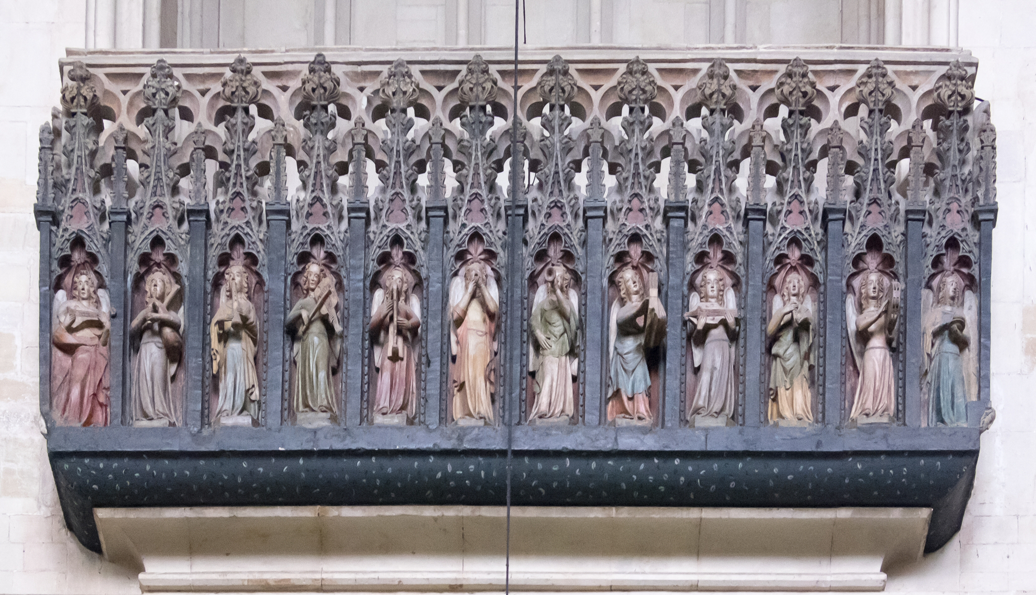 The Minstrels' Gallery of Exeter Cathedral decorated with fourteen (twelve showing in the image) carved angels, twelve of which are playing medieval musical instruments